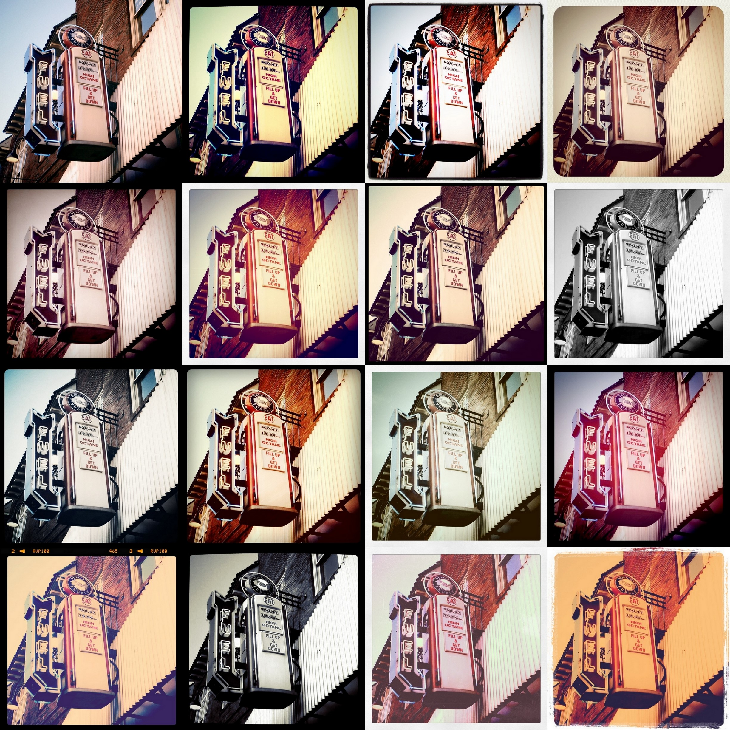 A collage showing a photograph, along with the same photograph processed through all 15 filters in the iOS app Instagram (as of the date of creation in April 2011)